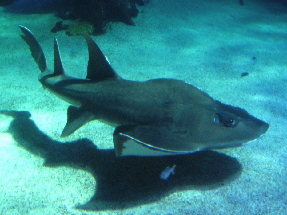 Bowmouth guitarfish (Rhina ancylostoma)